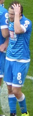 Harry Arter playing for AFC Bournemouth against Manchester United in March 2017